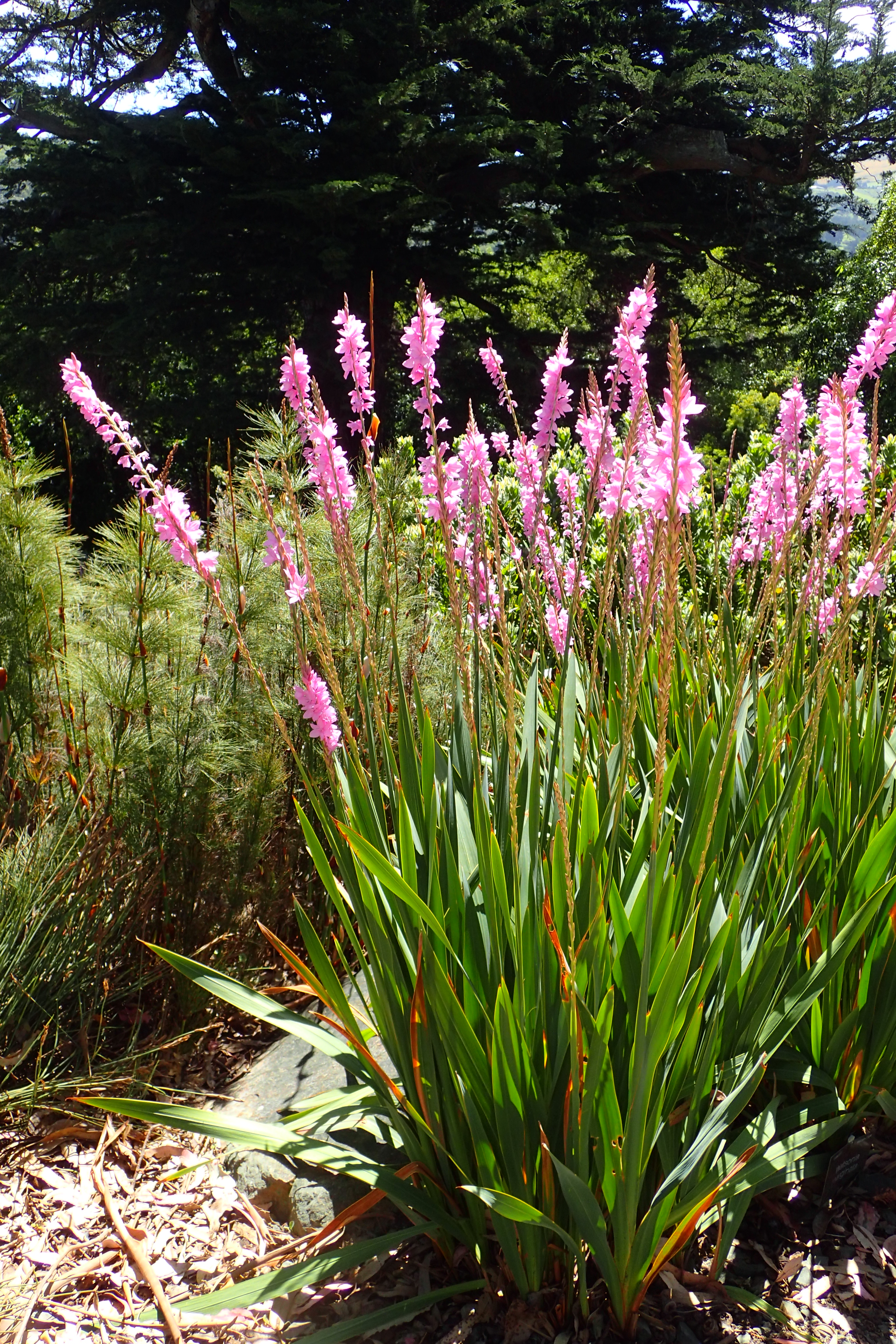 Watsonia marginata in Dunedin Botanic Garden